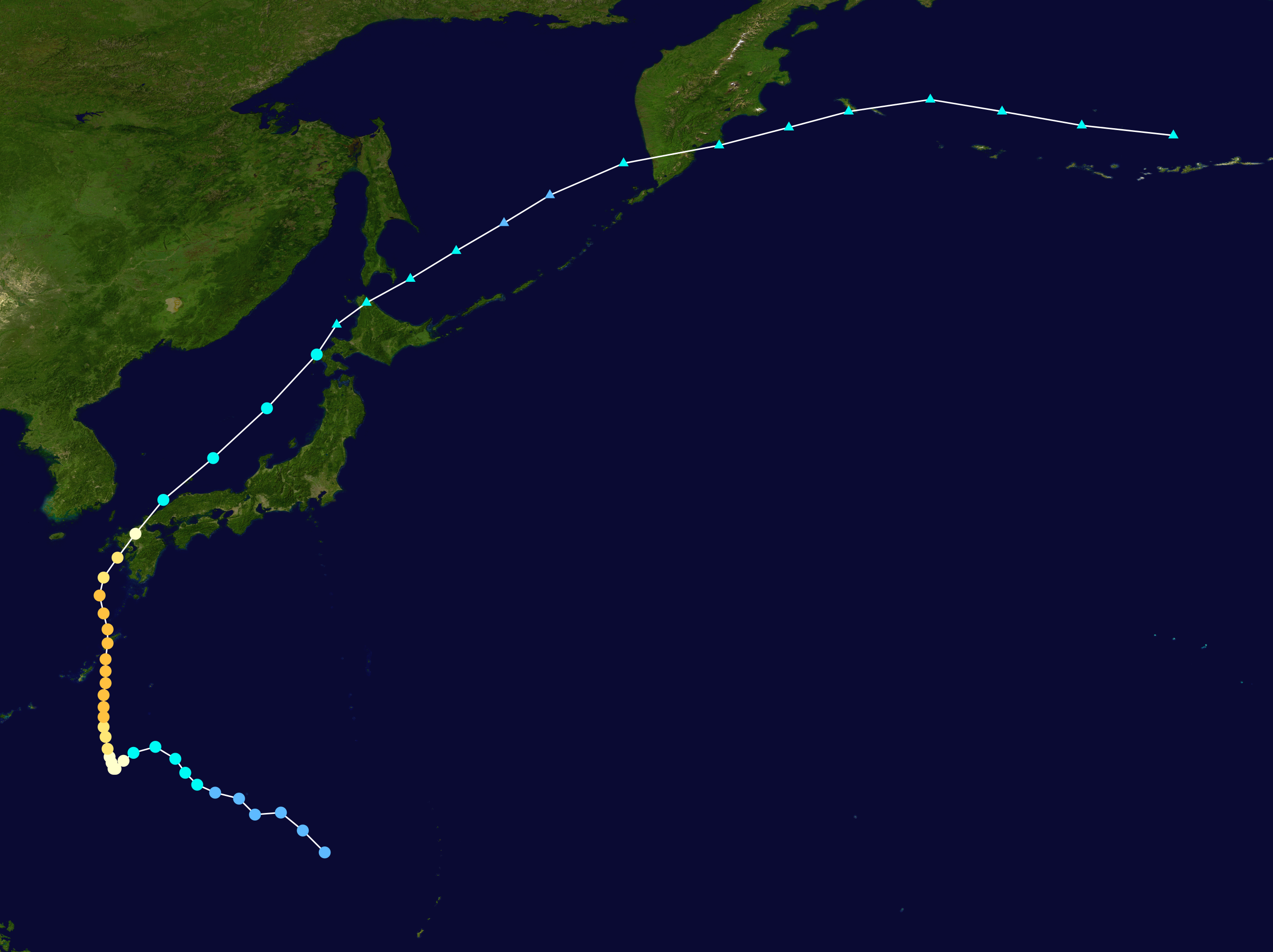 Track map of Typhoon Wilda of the 1970 Pacific typhoon season. The points show the location of the storm at 6-hour intervals. The colour represents the storm's maximum sustained wind speeds as classified in the Saffir–Simpson hurricane wind scale (see below), and the shape of the data points represent the nature of the storm, according to the legend below. Saffir–Simpson hurricane wind scale Tropical depression≤38 mph≤62 km/h Category 3111–129 mph178–208 km/h Tropical storm39–73 mph63–118 km/h Category 4130–156 mph209–251 km/h Category 174–95 mph119–153 km/h Category 5≥157 mph≥252 km/h Category 296–110 mph154–177 km/h Unknown Storm typeTropical cycloneSubtropical cycloneExtratropical cyclone / Remnant low / Tropical disturbance